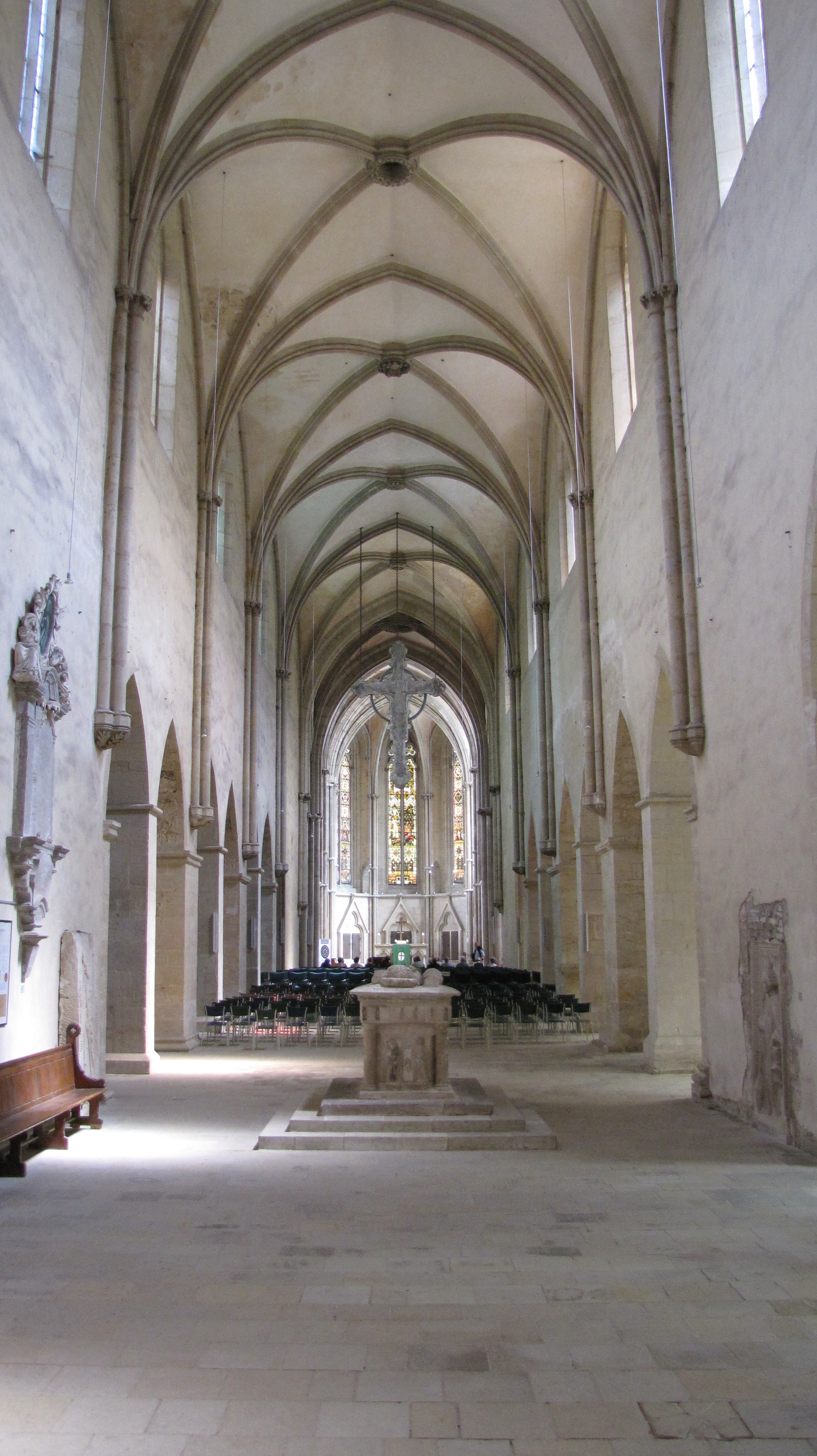 Interiror of Chapel in Schulpforte facing east